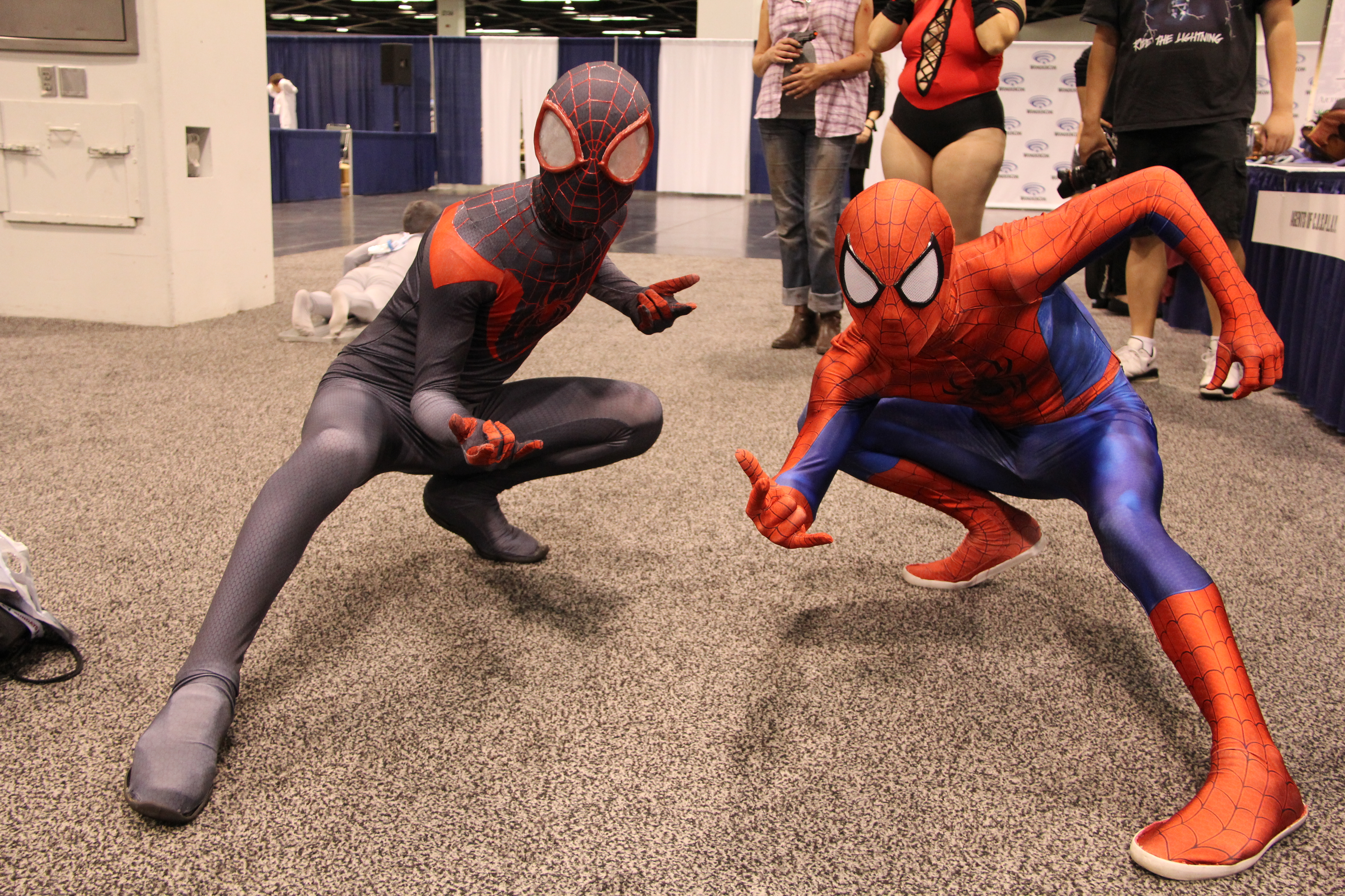 A cosplay of Miles Morales Spider-Man [left] and Peter Parker Spider-Man [right]